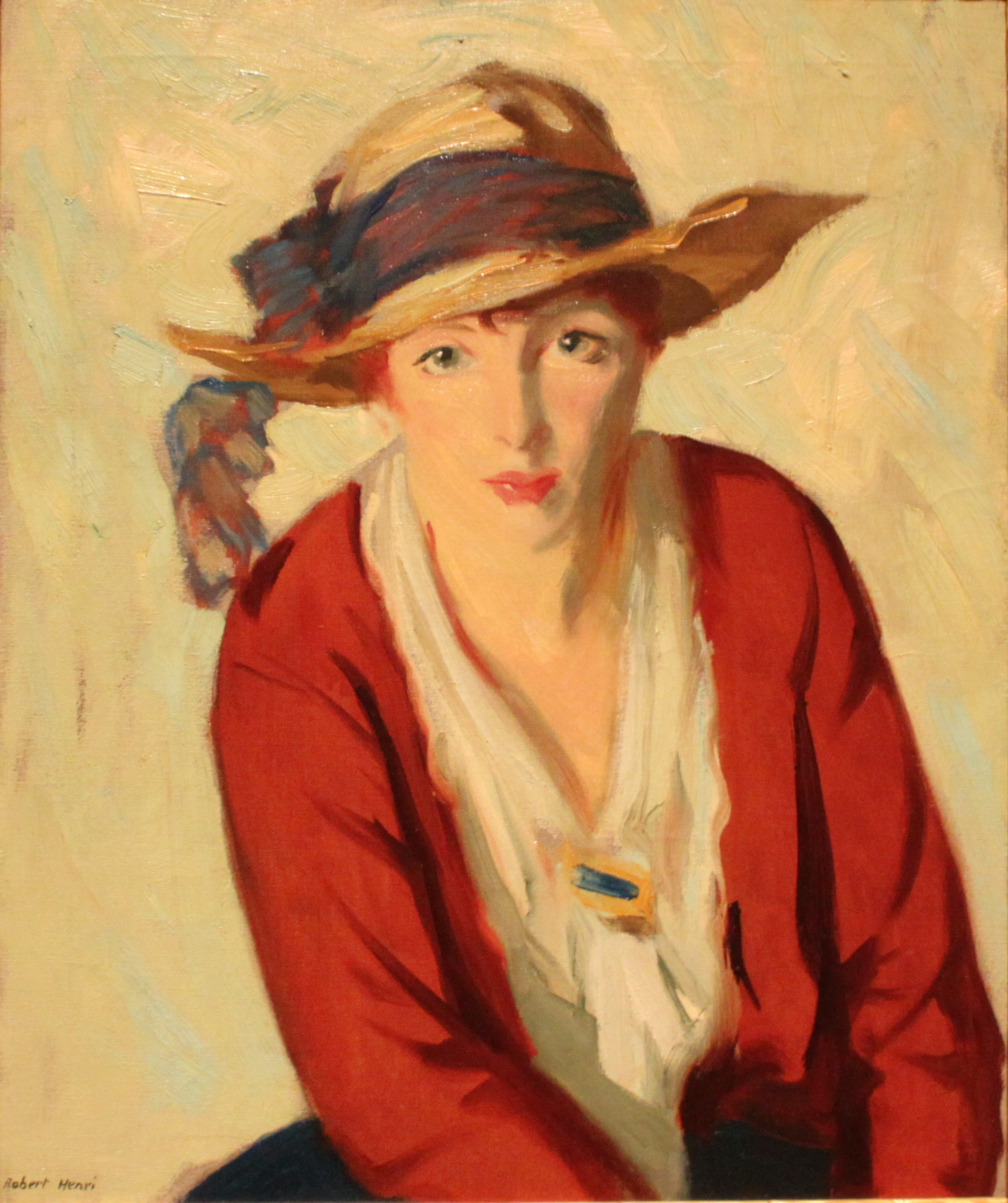 "The Beach Hat" by Robert Cozad Henri, 1914, oil on canvas, The Detroit Institute of Arts